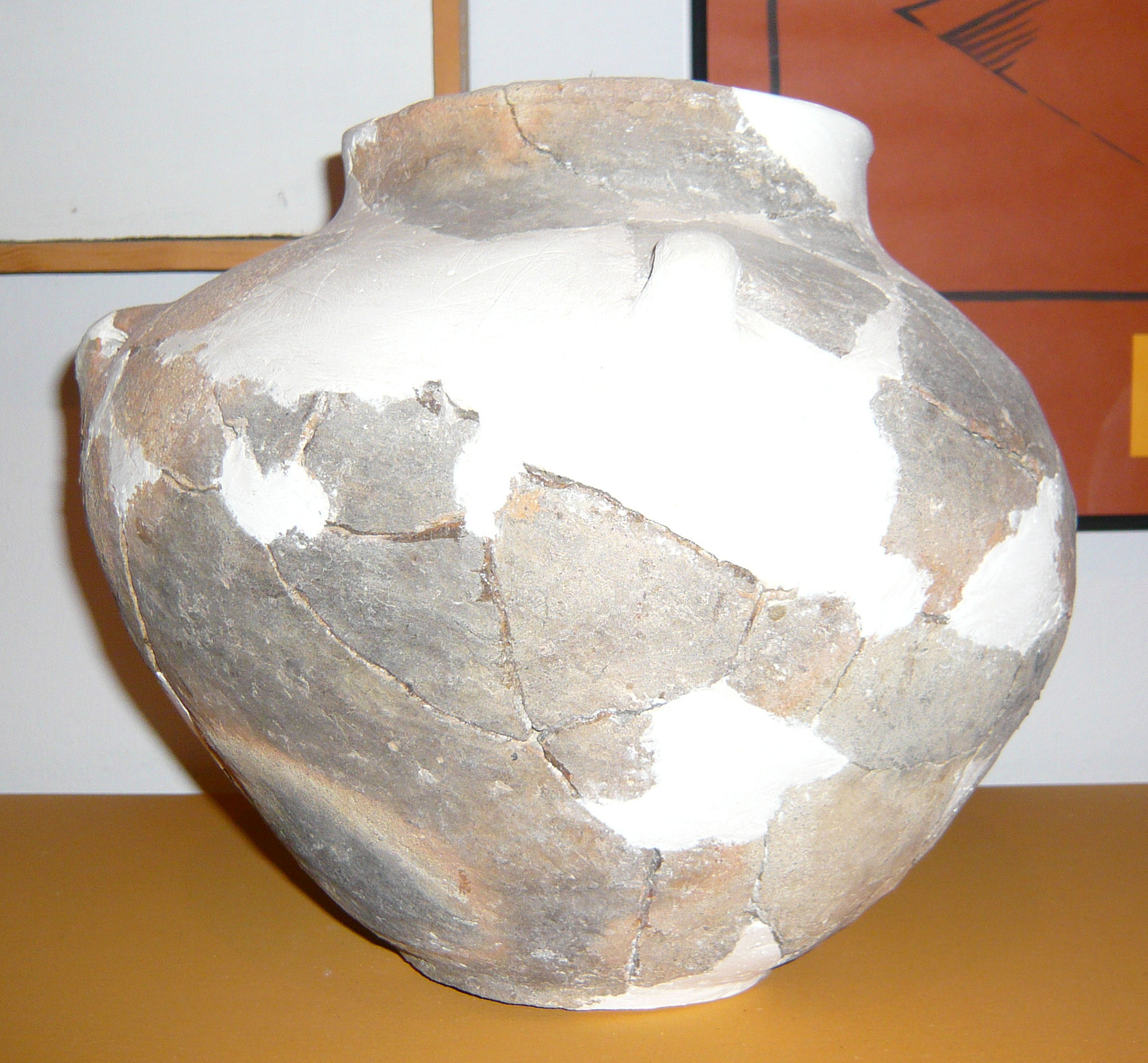 Corded Ware culture Krasnystaw Polnad